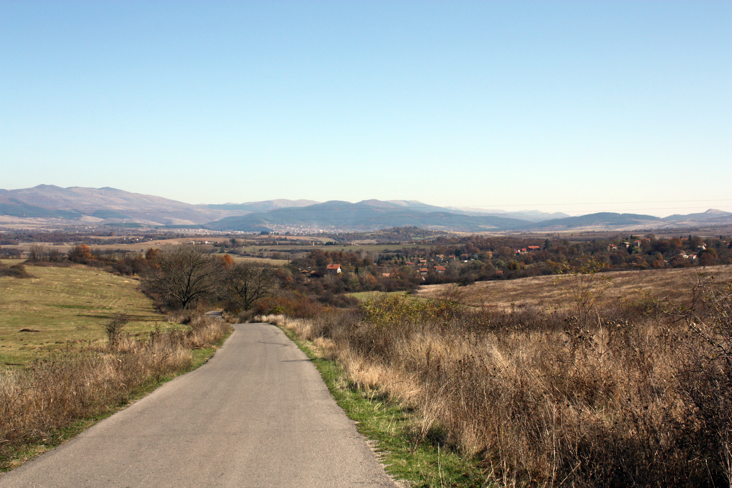 Descent from Chepan Mountain. Kalenovtsi houses roofs down below. Balkan Mountains and Godech on the horizon. Zabarde. Gladno pole